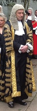 Lord Justice Pitchford (Sir Christopher Pitchford) in his ceremonial dress, in a procession at Llandaff Cathedral in 2013